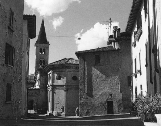 Sonvico medieval core 2